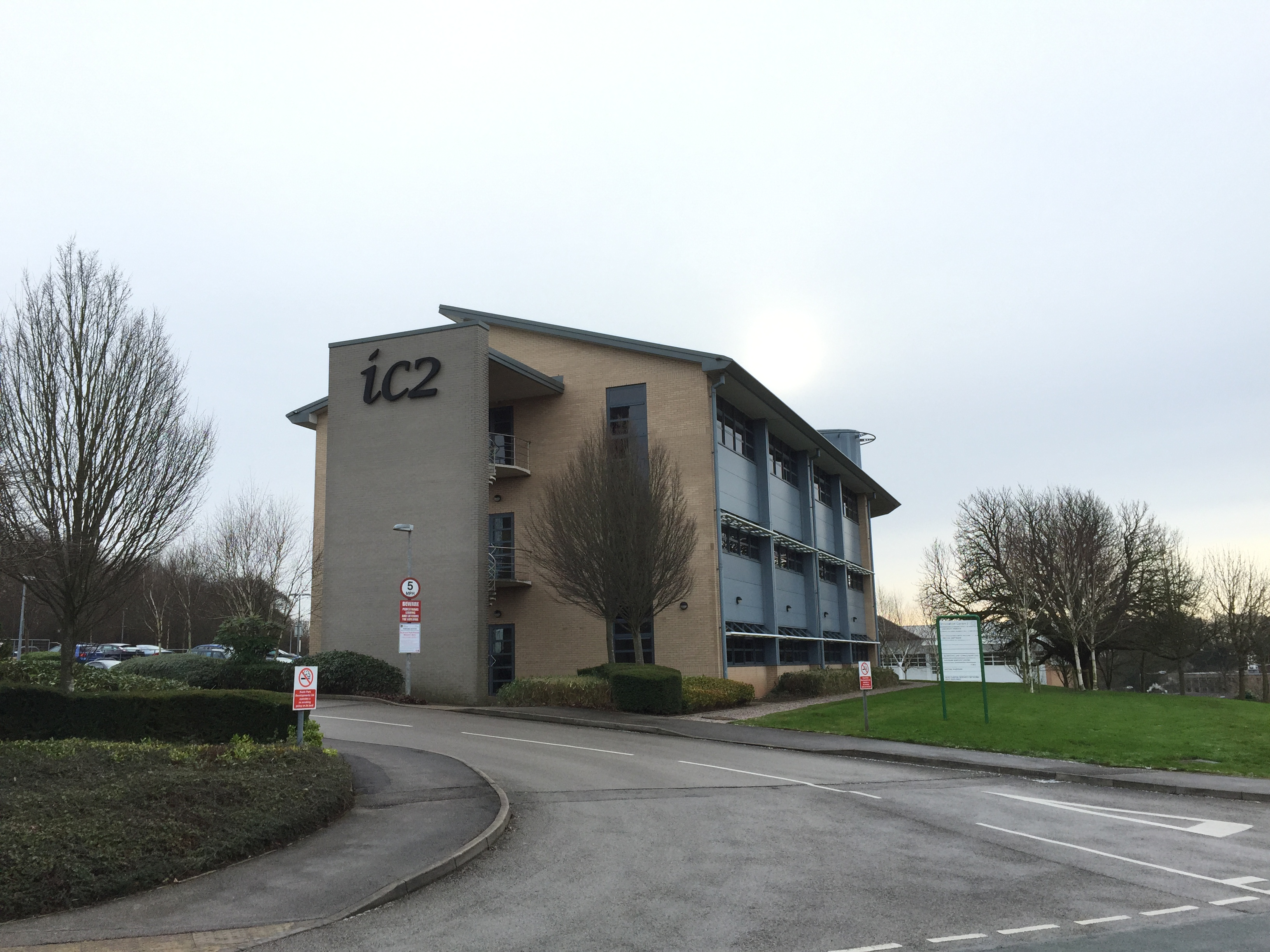 Keele University IC2 building